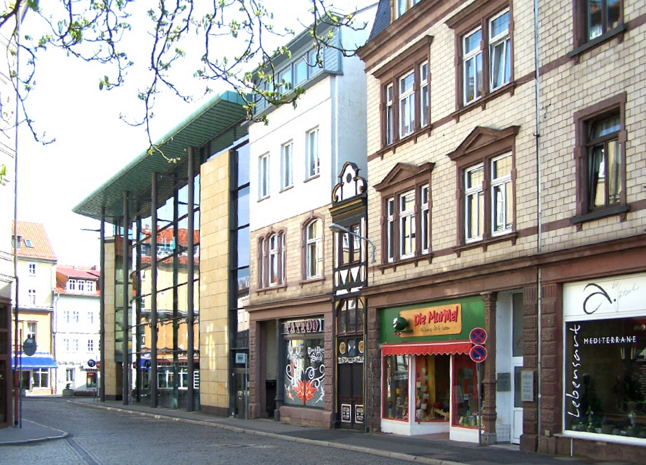 Johannisstraße with the narrowest house of Germany